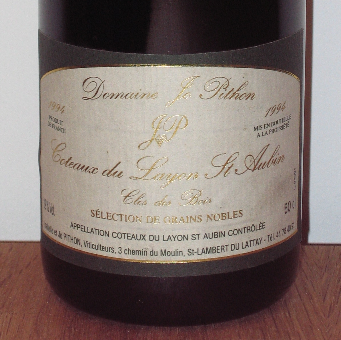 A bottle of wine from Coteaux du Layon, a sweet wine appellation in the Loire valley: Clos des Bois Sélection de Grains Nobles 1994 by Jo Pithon